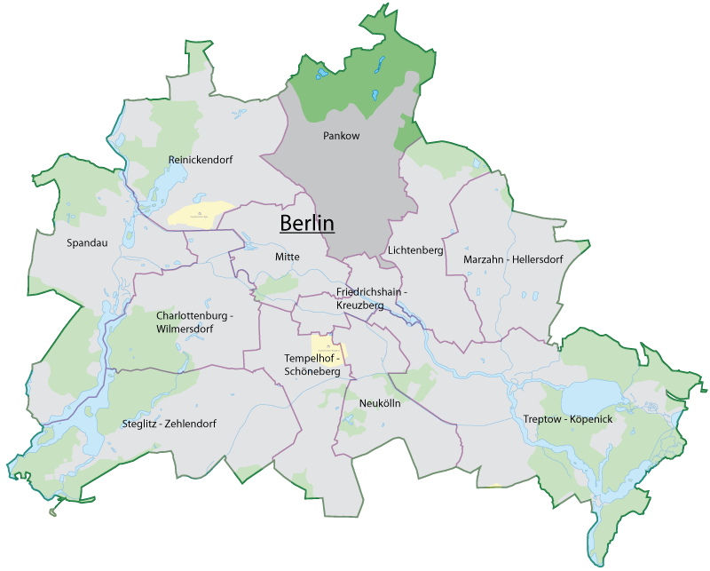 Author: Felix Hahn Source: Based on Water map of Berlin Description: Map of Berlin and its districts.